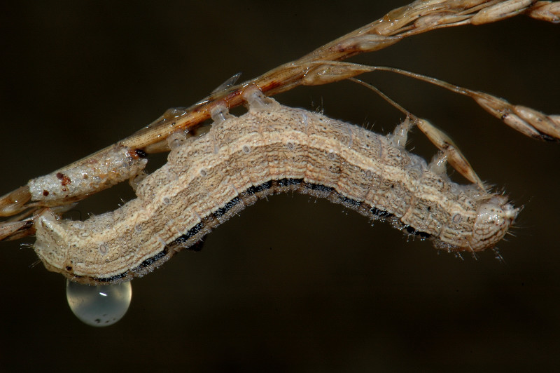 Xestia xanthographa, larva. Location: The Netherlands - Nationaal Park de Meinweg.